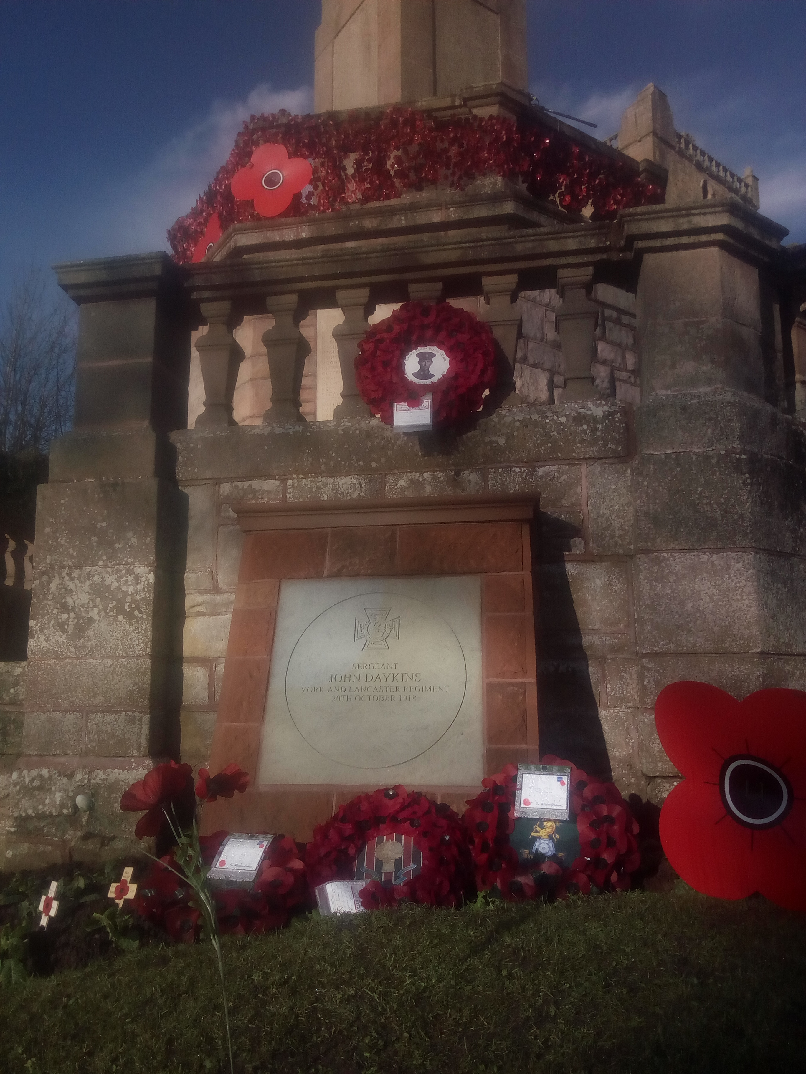 War Memorial for John Brunton Daykins VC Wikidata has entry Q17837025 with data related to this item.